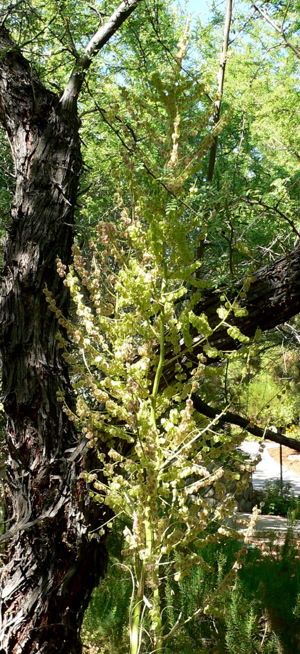 Photo of Nolina microcarpa at the Springs Preserve garden in Las Vegas, Nevada